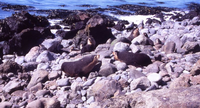 This picture was taken in Possession Island (Crozet Archipelago) at the site named "the elephant seal pool". This picture was taken in december 2002 by Nicolas Servera. In the foreground, you can see two males of the subantarctic fur seal (Arctocephalus tropicalis) face to face on the border of their territories. The border is marked by bigger rocks. In the middle distance, you can see two other males on the border of their own territories who are watching the event.